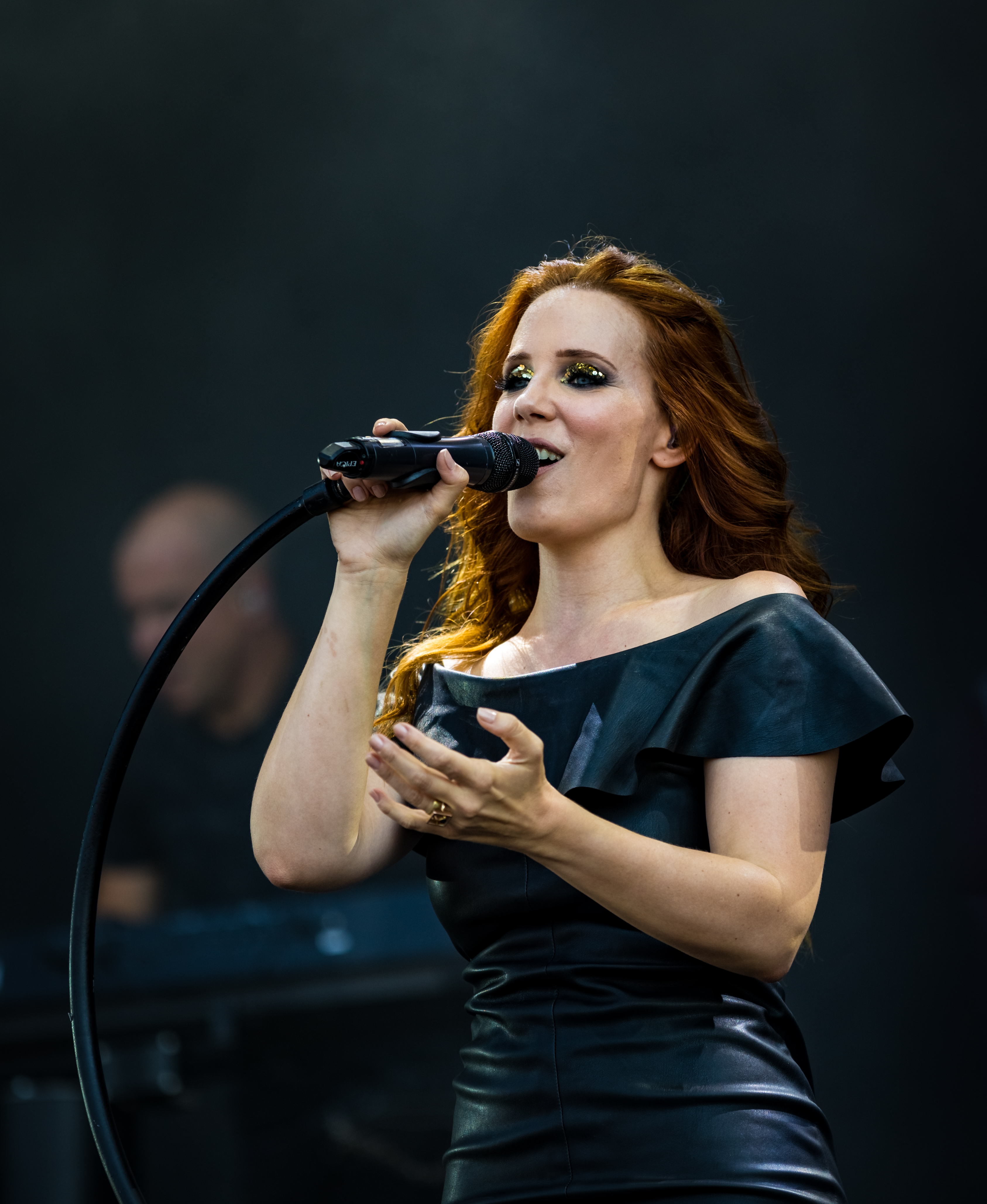 Epica - Wacken Open Air 2018